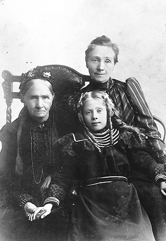 Zina Young Card Brown as a young girl, with her mother Zina P. Young Card and grandmother Zina D. H. Young, circa 1890s